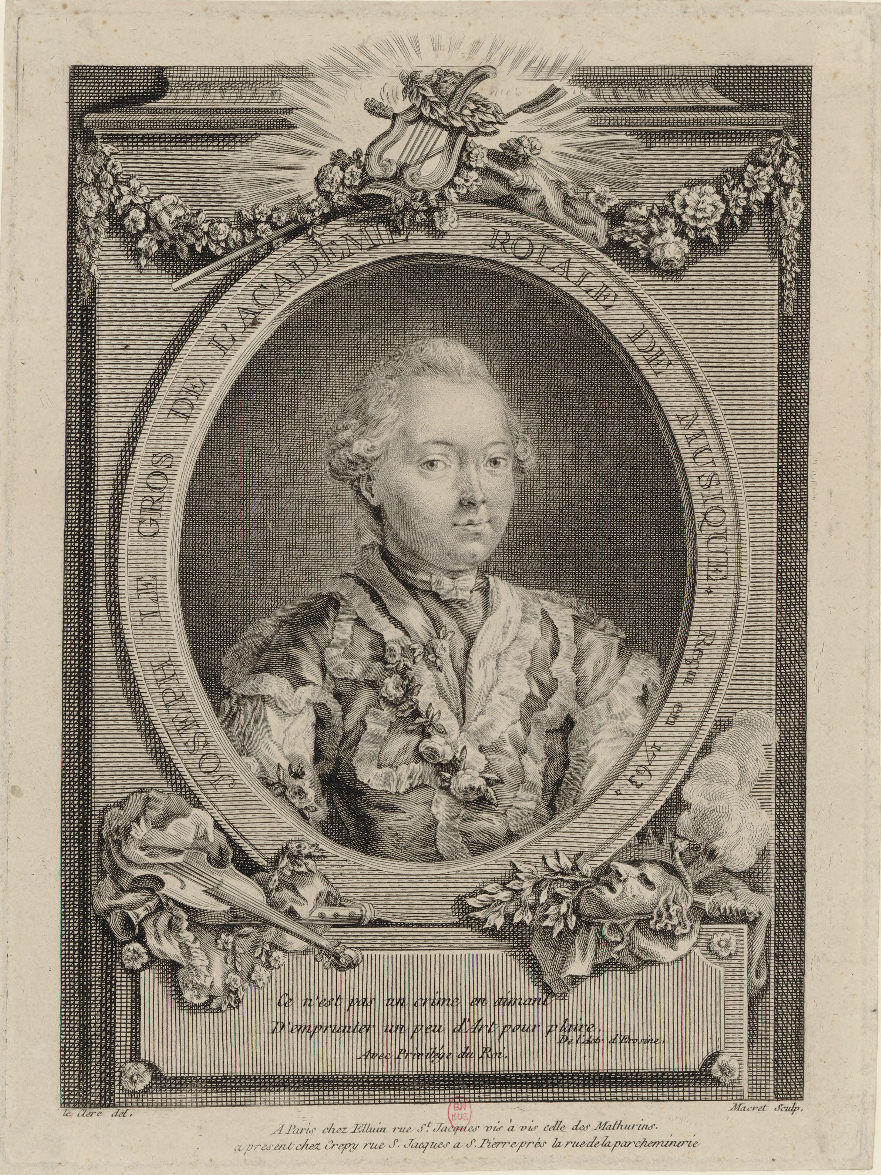 Joseph Legros (1739–1793), French operatic haute-contre (high tenor), who sang leading roles at the Académie Royale de Musique in Paris